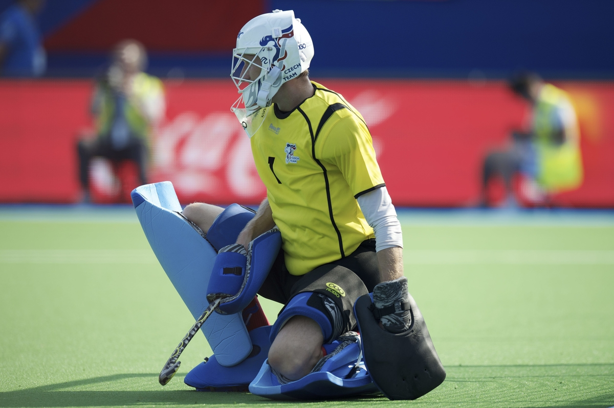 It is the picture of Filip Neusser, hockey goalkeeper, during his national team game.